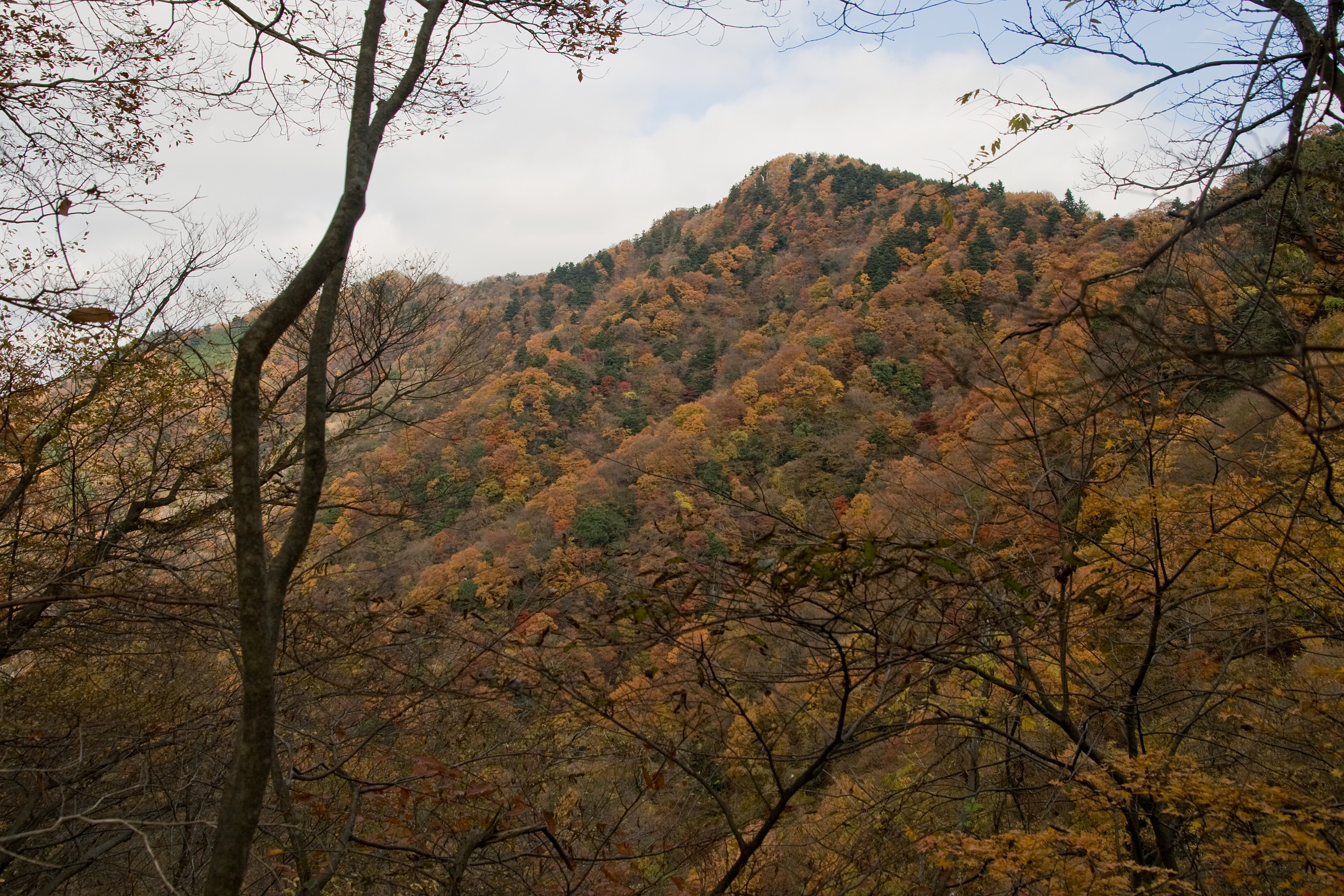 Mount Kawagoishi (Kawagoishi-yama) in the Tanzawa Mountains, Japan